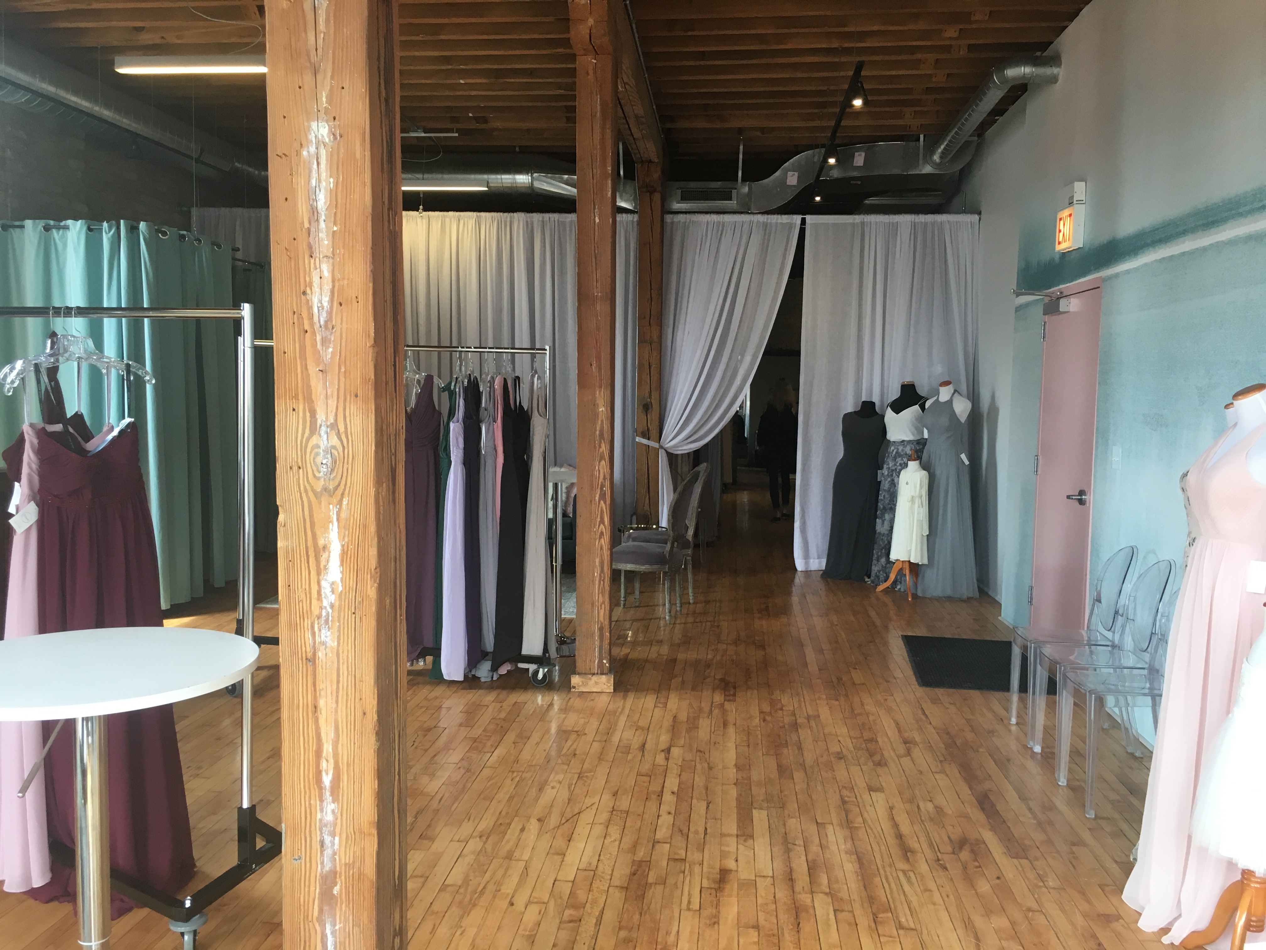 Brideside office